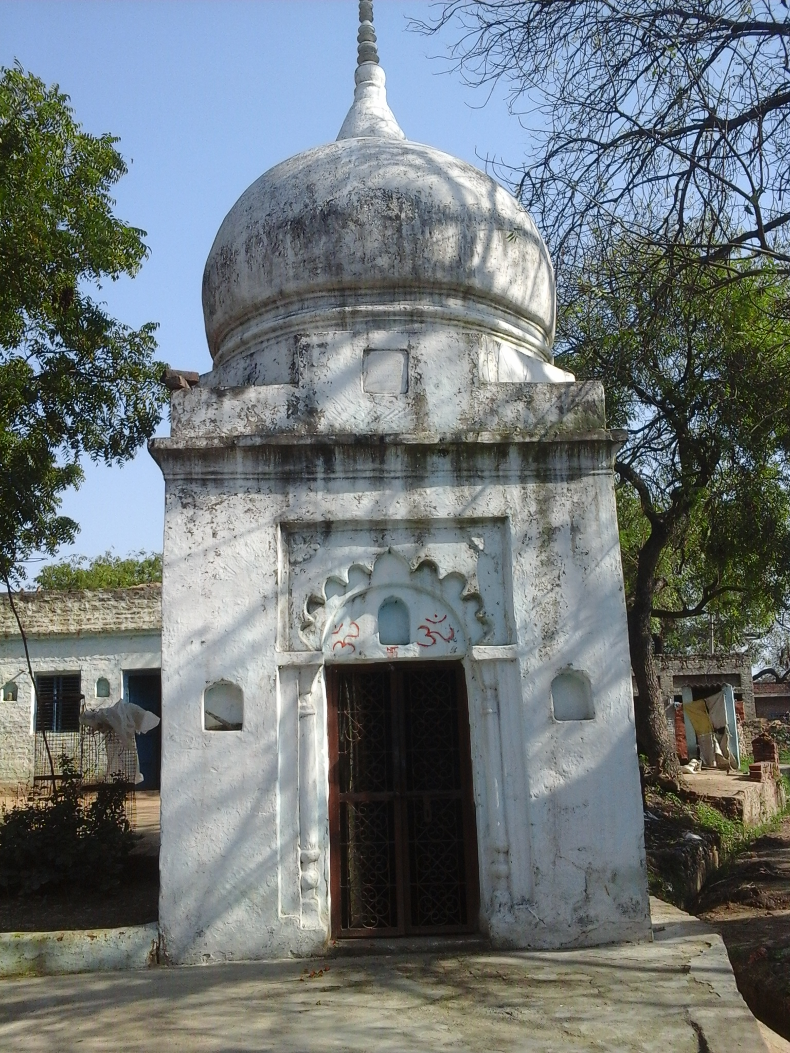 An ancient Shiv Temple constructed by renowned 'Mishra" family.Its location is at Injuwarampur,Kanpur Dehat ,Uttar Pradesh,India.